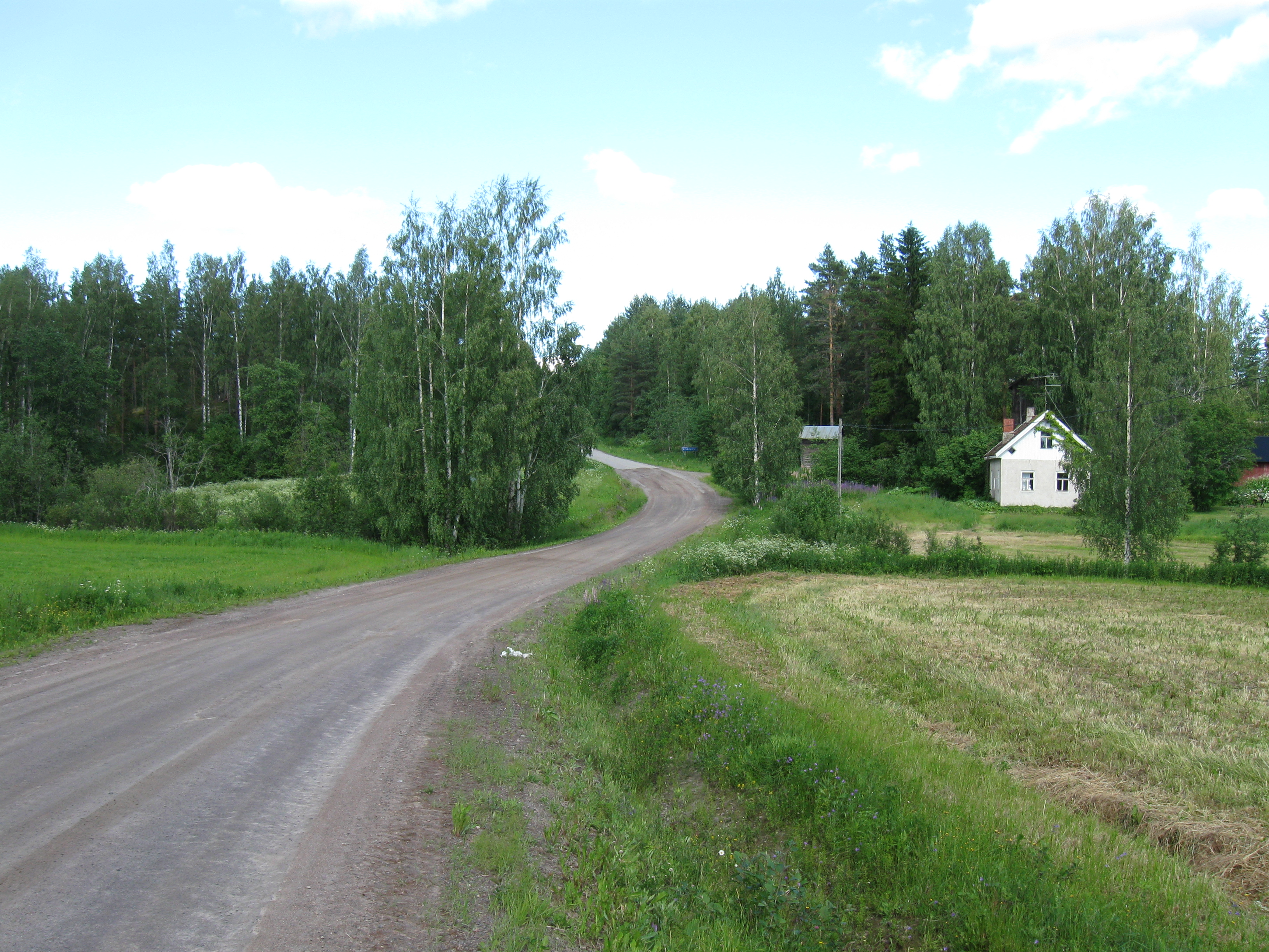 The Melkoniemi village in Parikkala, Finland, the village borderline seen from the South at the road 4052 towards the North.